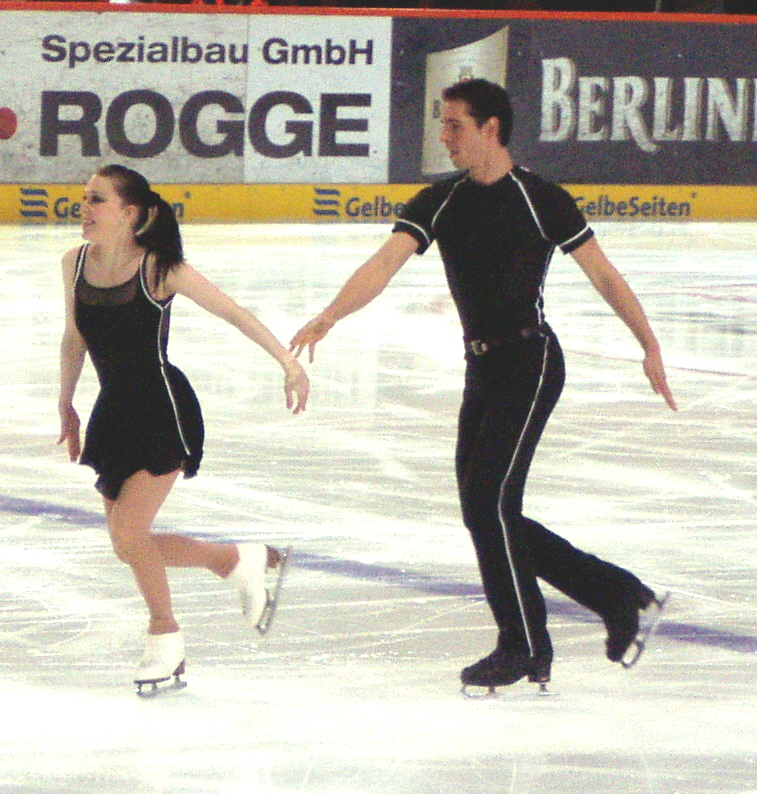 Eva-Maria Fitze and Rico Rex at their short program at the German championships 2006 in Berlin before the dress got accidentally modified.